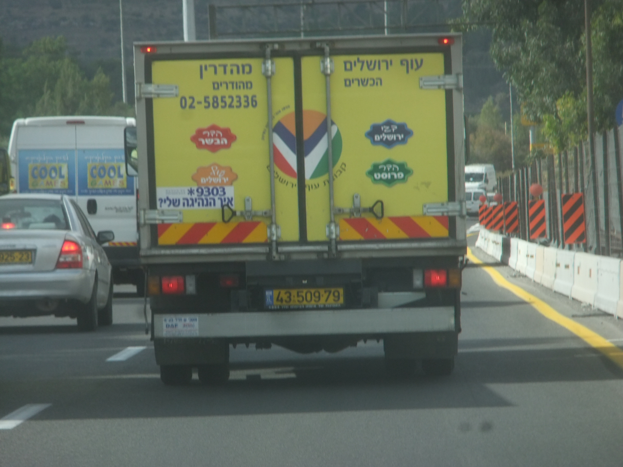 A truck of "Off Yerushalayim" a chicken slaughtering house.